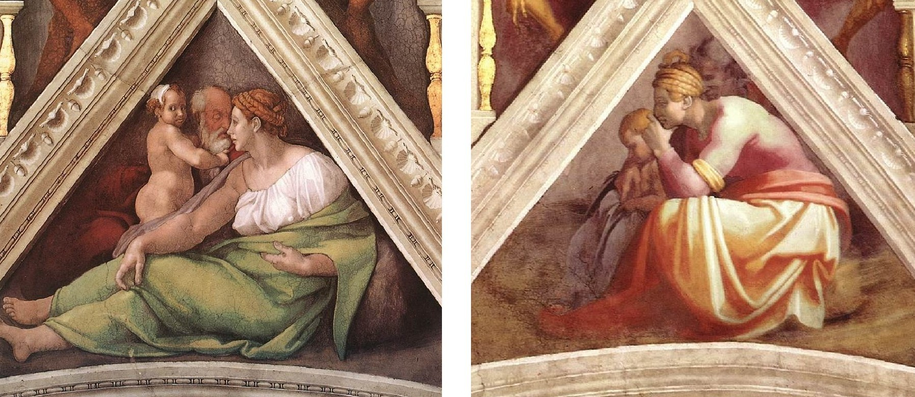 Sistine Chapel Two spandrels after restoration